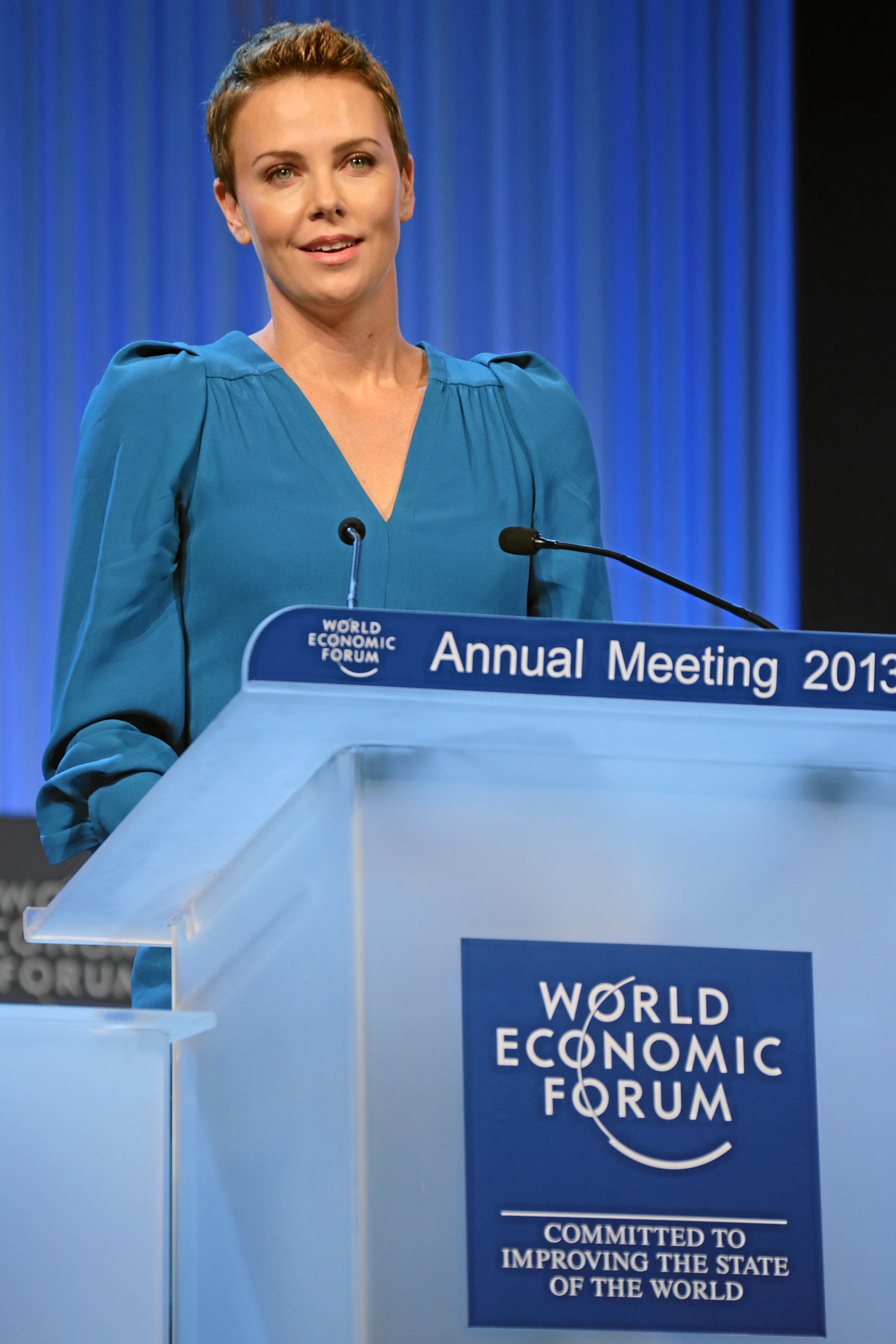 DAVOS/SWITZERLAND, 22JAN13 - Charlize Theron, Actress and Founder, Charlize Theron Africa Outreach Project, USAspeaks during the Crystal Award Ceremony - 'Exploring Arts in Society' at the Annual Meeting 2013 of the World Economic Forum in Davos, Switzerland, January 22, 2013.. . Copyright by World Economic Forum. .